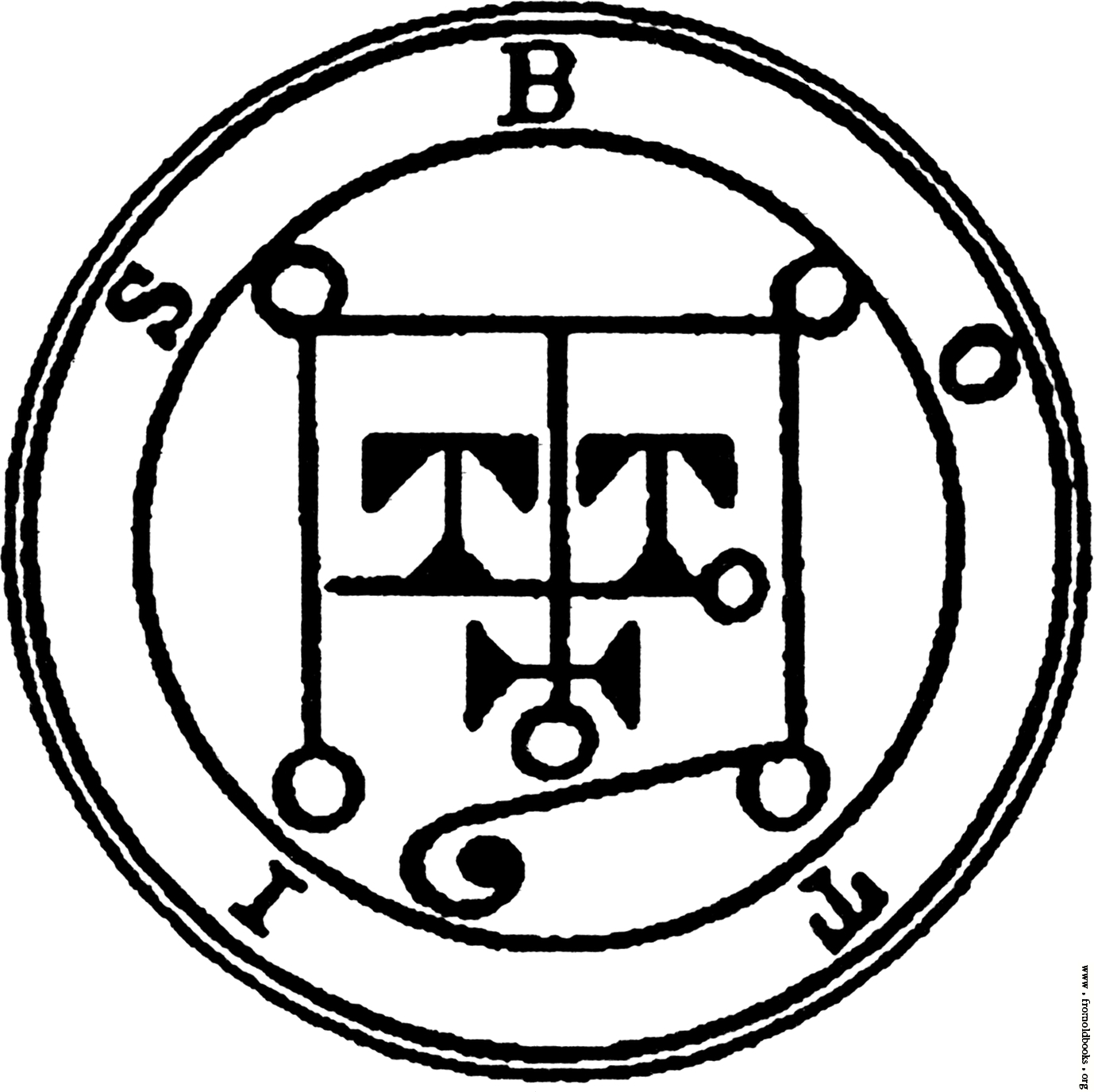 The seal of Botis, from the Lesser Key of Solomon, a spell book on demonology published in the 17th century.